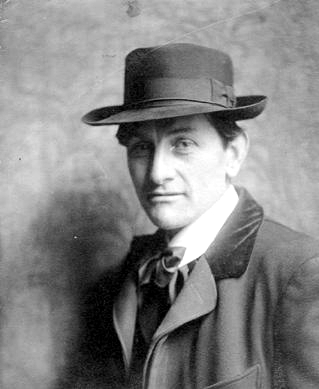 American painter, Arthur Watson Sparks (1871-1919)